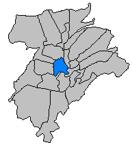 Map of Luxembourg City, Luxembourg, with the boundaries of the city's twenty-four quarters demarcated and the quarter of Ville-Haute highlighted in blue.